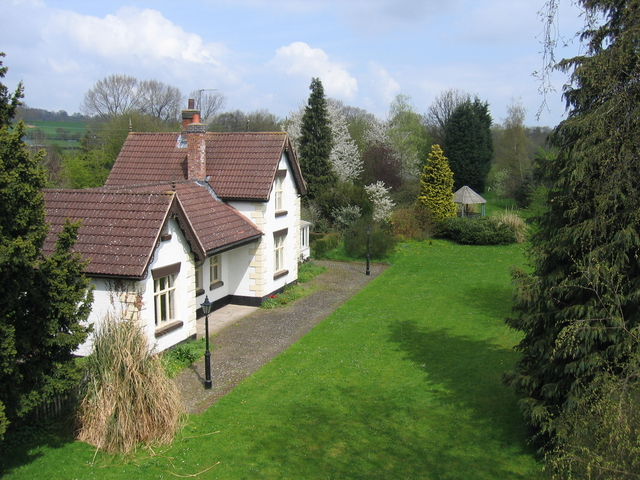 Lynclys Station. The station buildings, now a private house, seen from the bridge over the former Cambrian Railways main line from Oswestry to Welshpool and mid-wales. The edge of the up platform can still be seen although the trackbed is currently filled in up to platform level and grassed over.